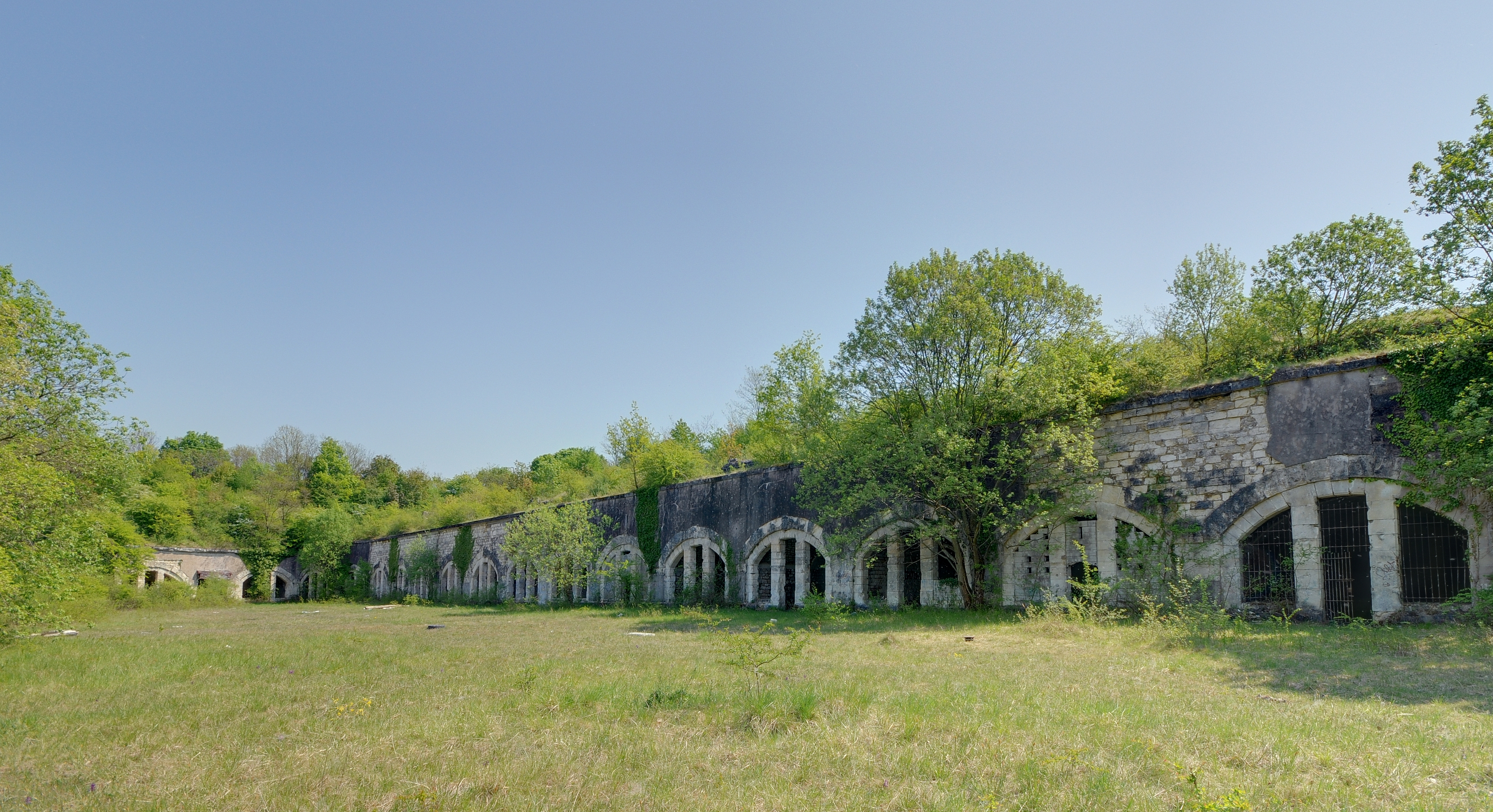 This photograph was taken with a Nikon D300 Fort du Bois d'Oye : dans la cour intérieure (HDR).